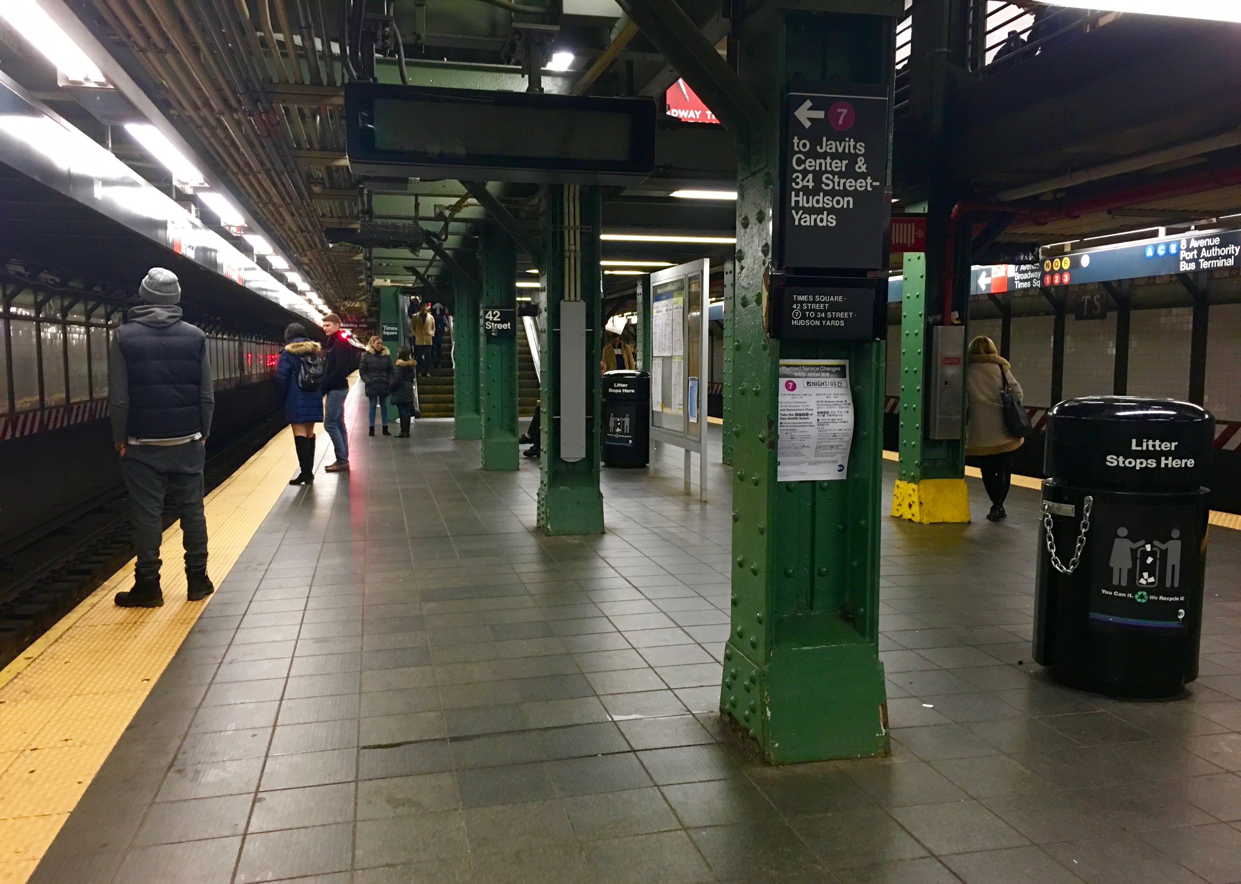 Flushing line platform at Times Square - 42nd Street on the 7.